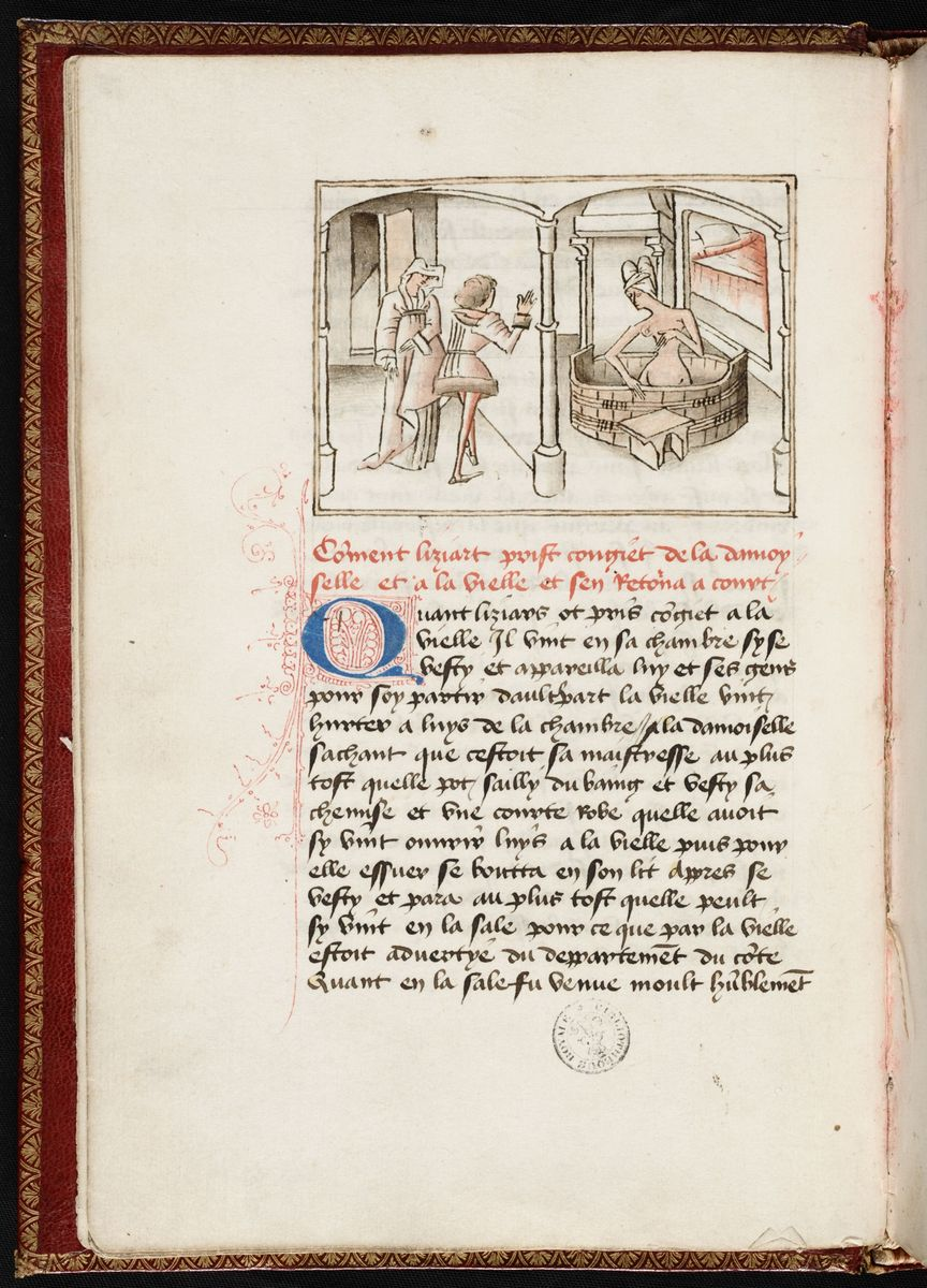 Page with an illustration of "Roman de Gerard Nevers"